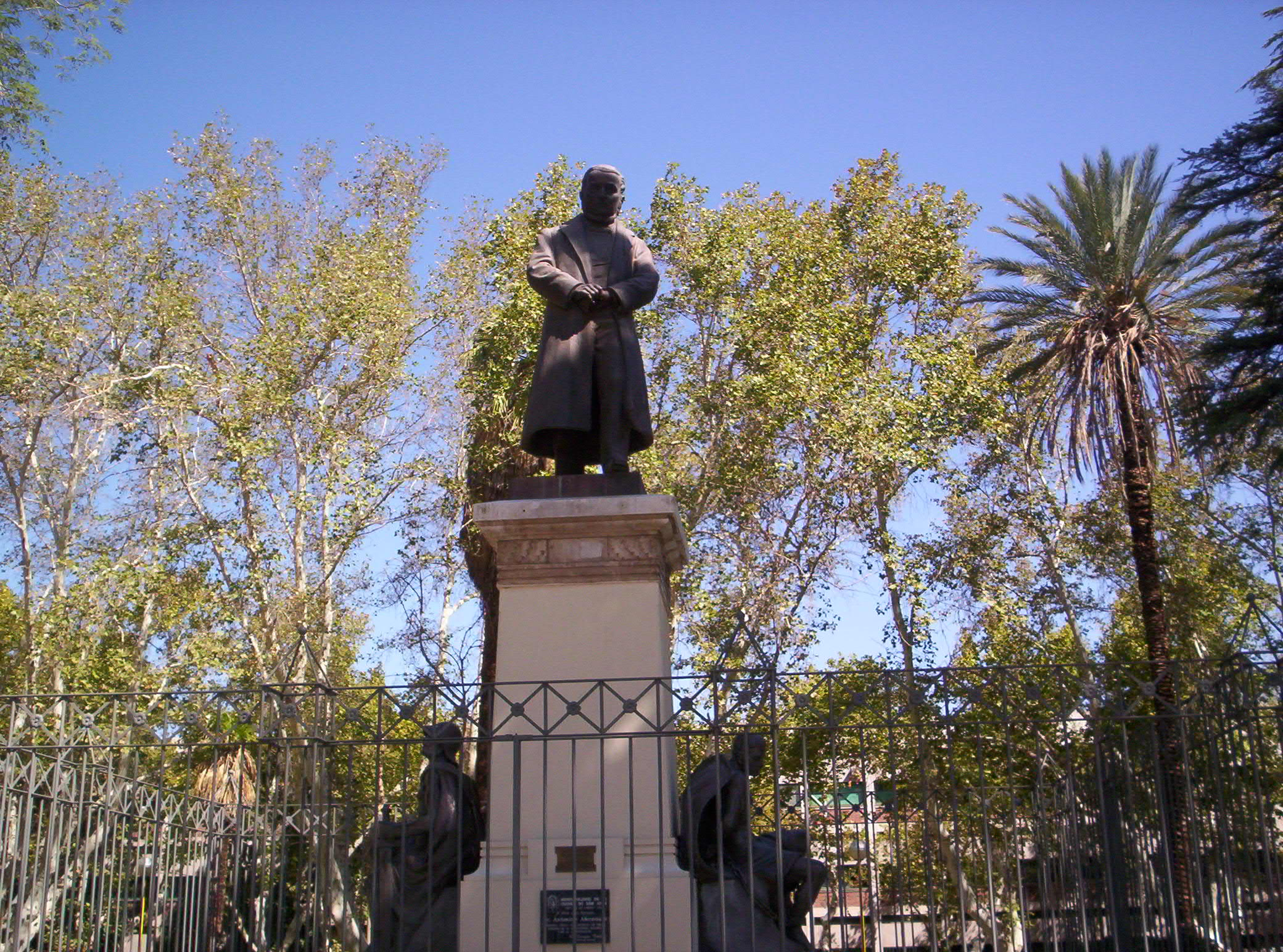 Photograph shows that a monument of Antoninus Aberastain (governor of San Juan and illustrious sanjuanino). It is located on the square that bears his name, in the town of San Juan Argentina